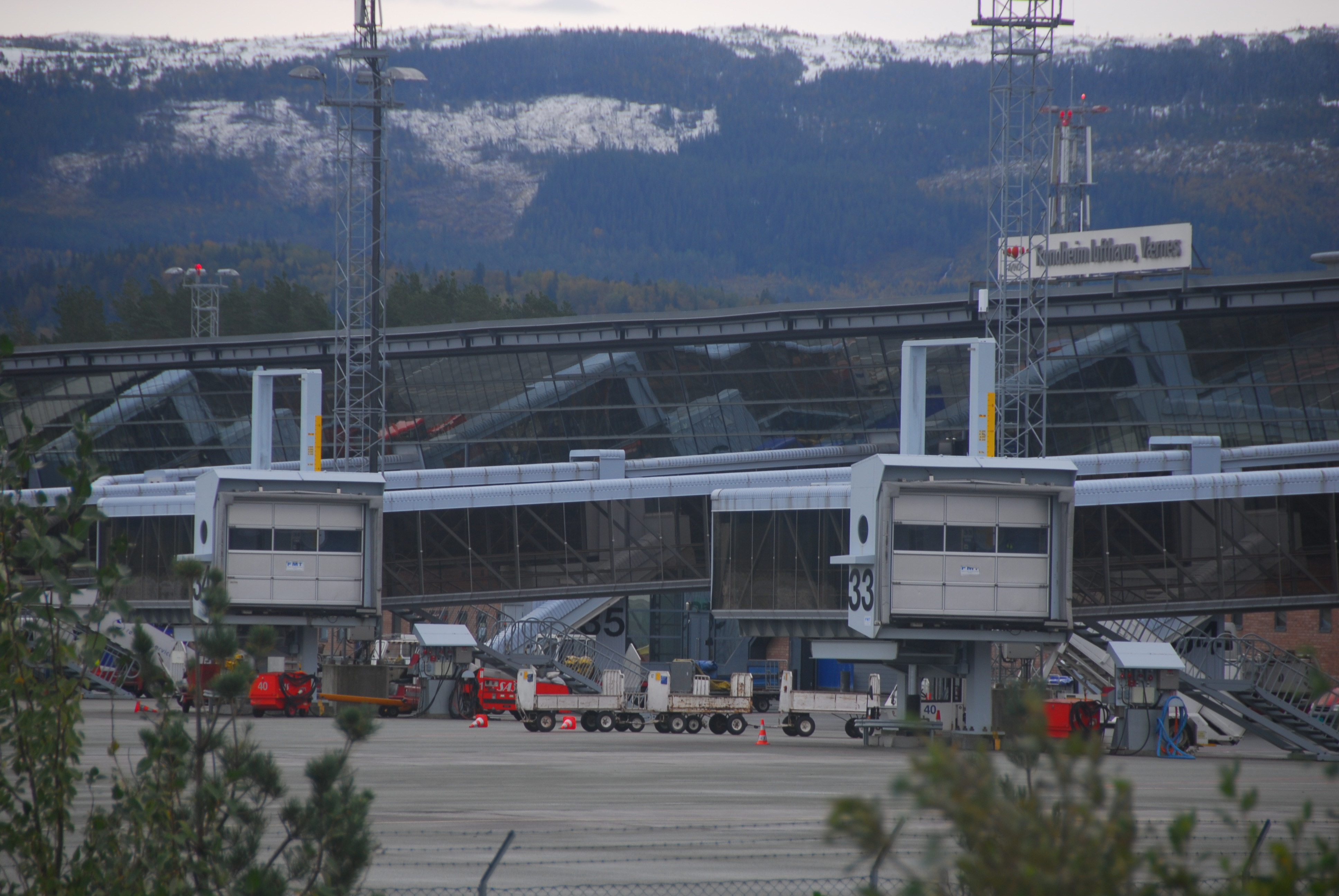 Exterior of gates 32 and 33 of Terminal A at Trondheim Airport, Værnes